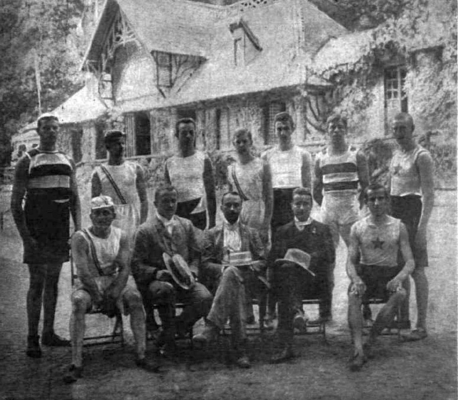 1900 Summer Olympics (Paris) athletes from Hungary